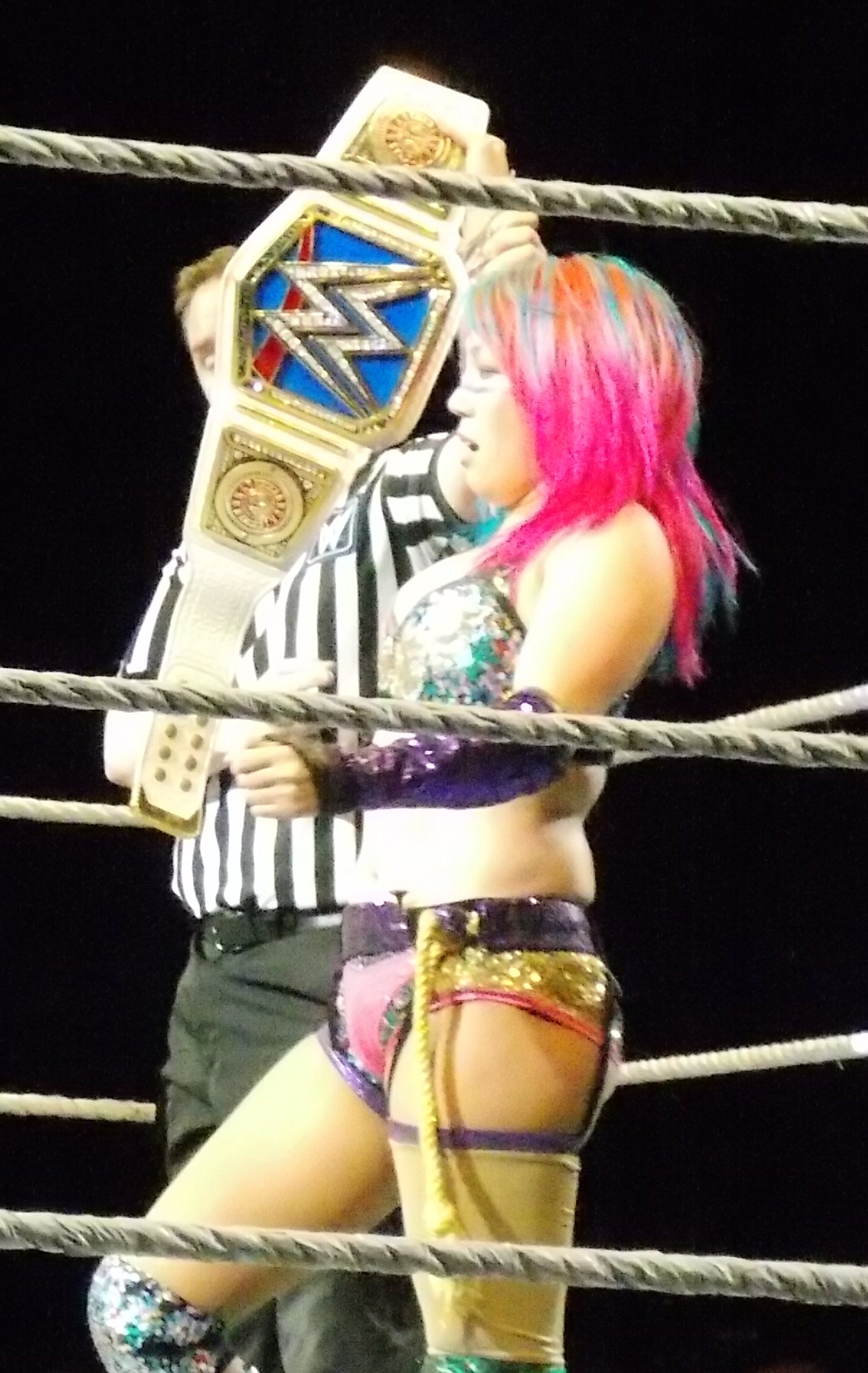 Asuka retaining the WWE SmackDown Women's Championship at a WWE Live Event House Show in Omaha, Nebraska, USA on Sunday, January 20, 2019